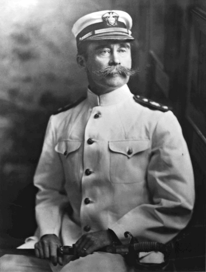 Robert Edwin Peary, north pole explorer